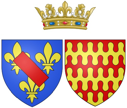 Coat of arms of Claire Clémence de Maillé as Princess of Condé